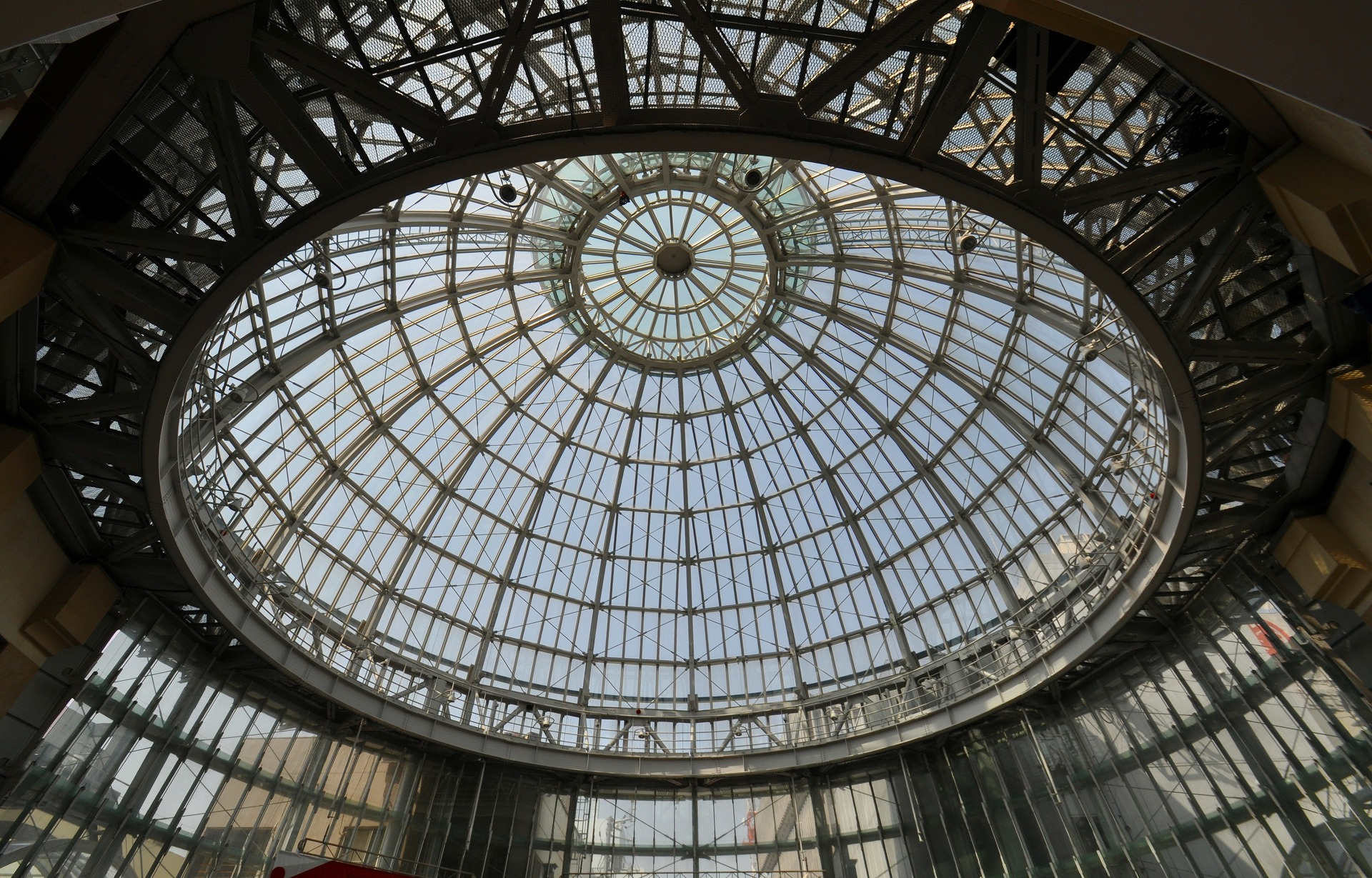 Dome of Marugame shopping mall at Takamatsu city